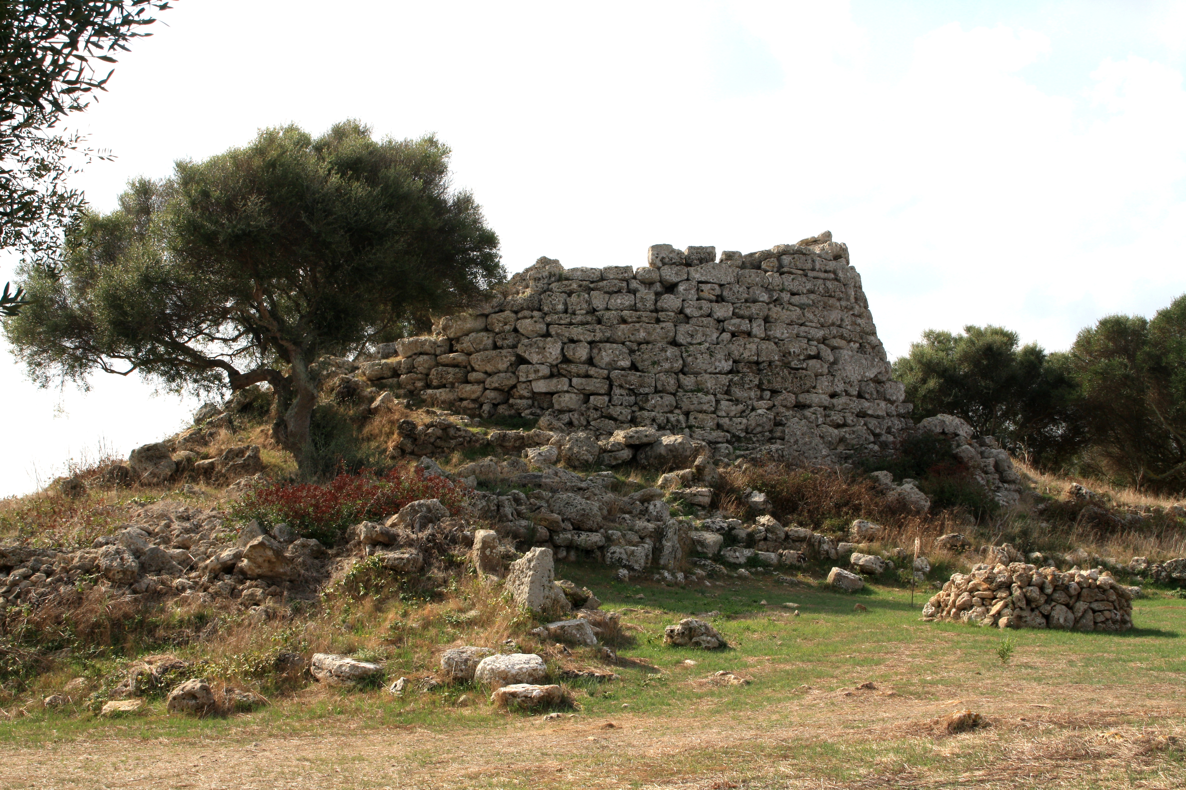 central Talayot of Talatí de Dalt talayotic settlement, Minorca